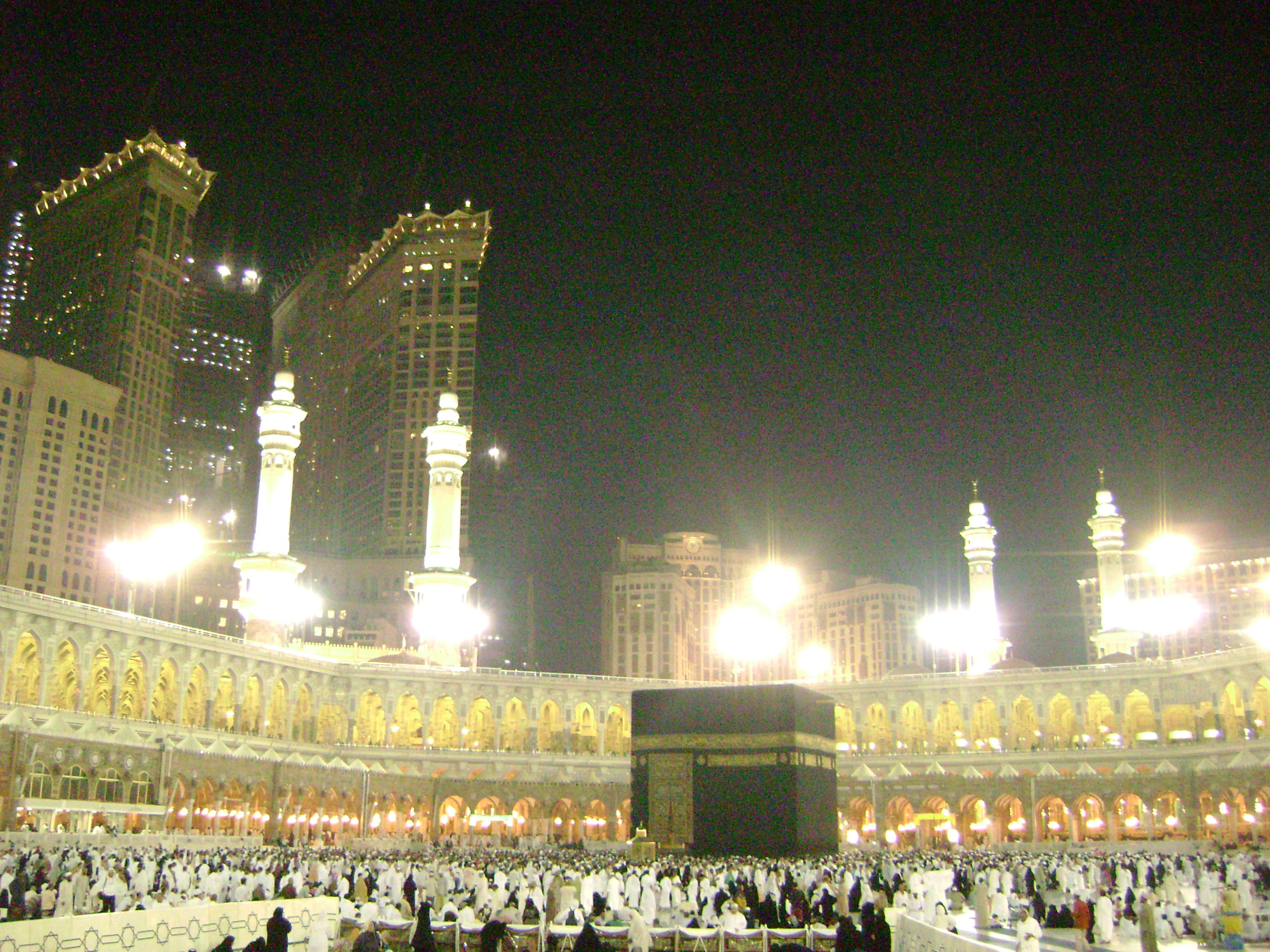 The Holy Kaaba in Makkah, Saudi Arabia.